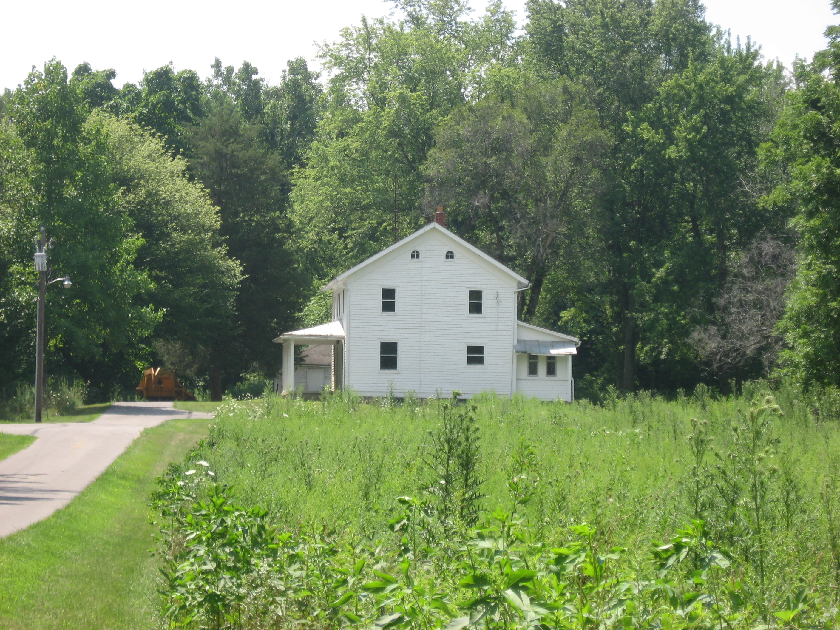 Front of the house at the Goll Homestead, located at 26093 Township Road F in the Goll Woods Nature Preserve northwest of Archbold in German Township, Fulton County, Ohio, United States. Built in 1862, it is listed on the National Register of Historic Places.